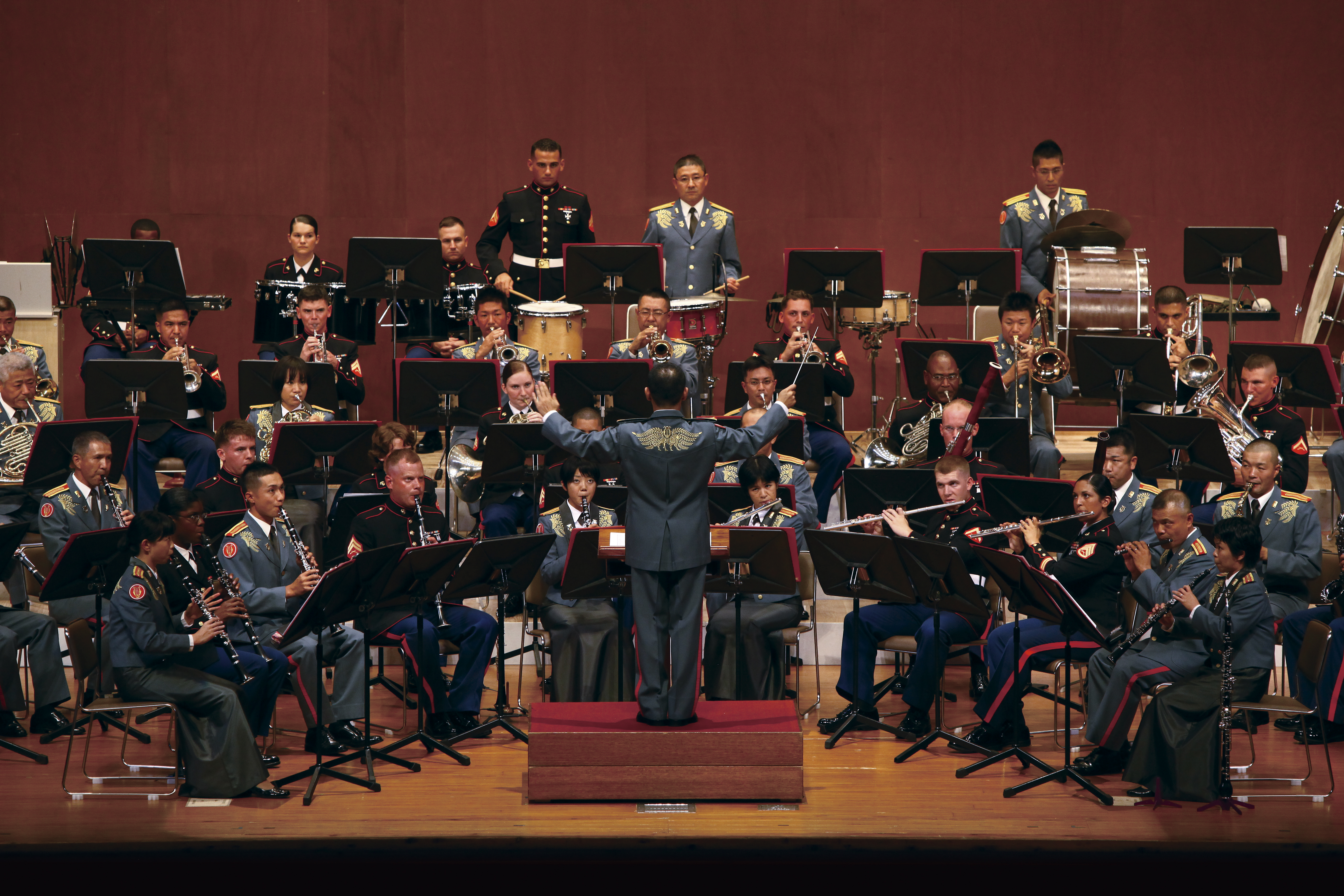 Capt. Masanori Shibata, director of the 15th Band Japan Ground Self Defense Force, conducts the combined band during the 15th Annual Combined Band Concert at the Okinawa Convention Center, Sept. 18.